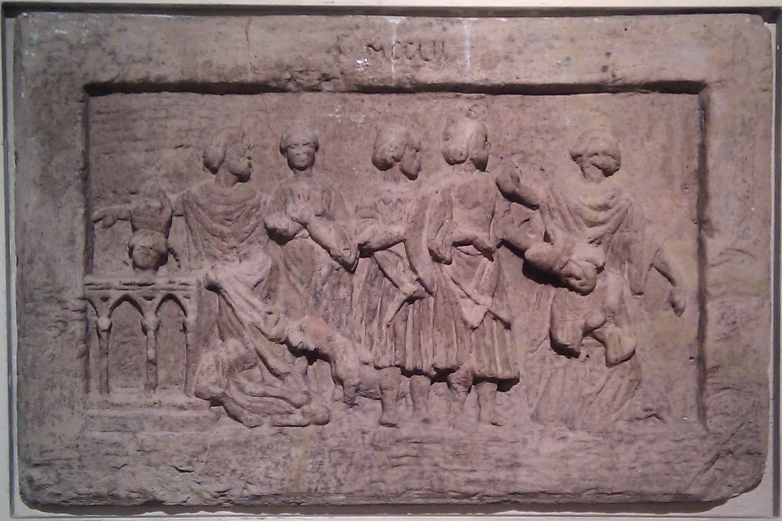 Crypt of the martyrium of St Denis in Montmartre. Stone of the ancient abbey of Montmartre